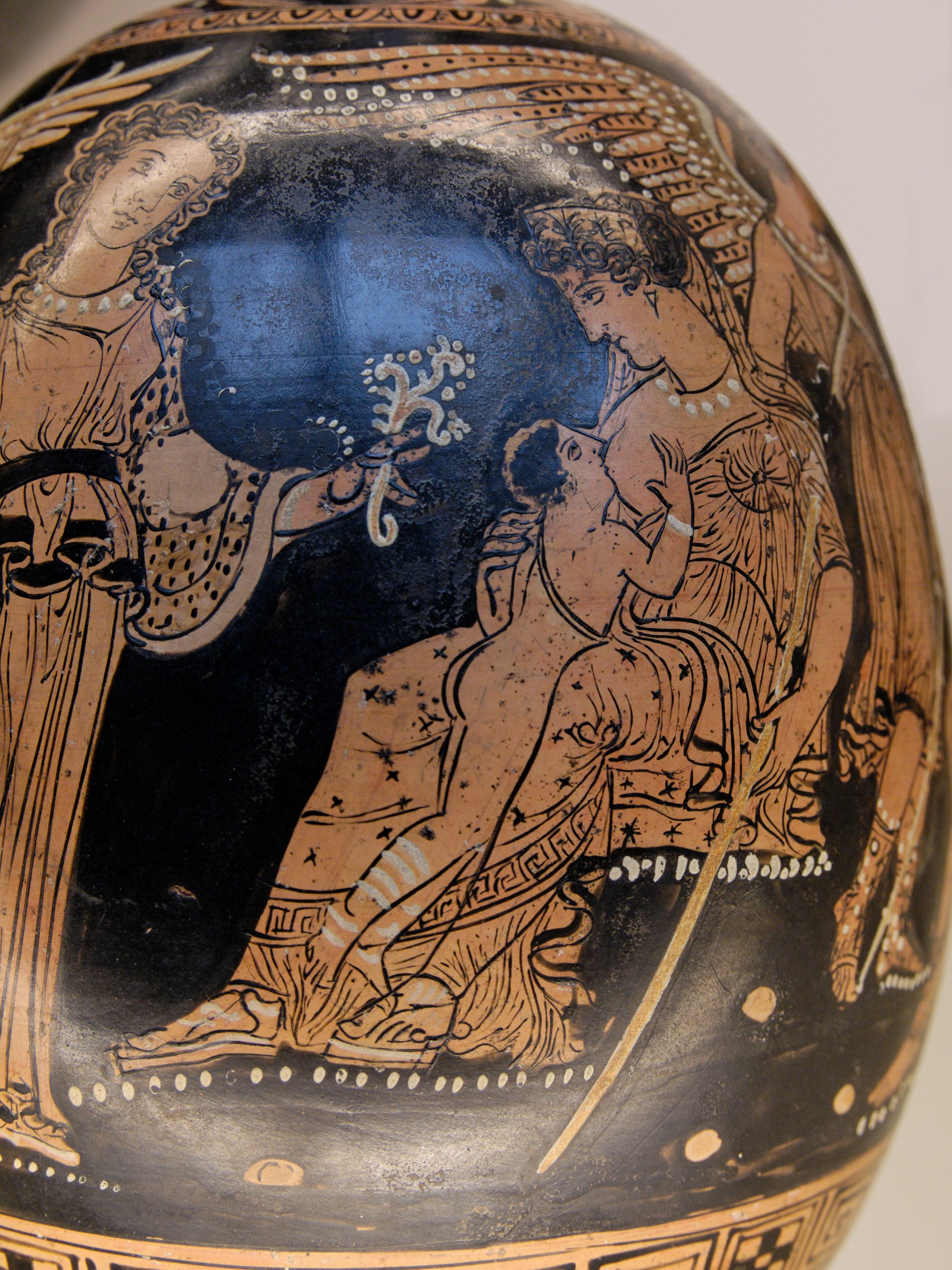 Hera suckling the baby Heracles at her breast, surrounded by Aphrodite and Eros (not visible here), Athena (on the left), Iris (on the right) and a woman, perhaps Alkmene (not visible here). Detail from an Apulian red-figure squat lekythos, ca. 360-350 BC. From Anzi.